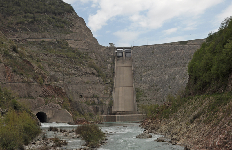 Mesochora Dam, Trikala province, Greece